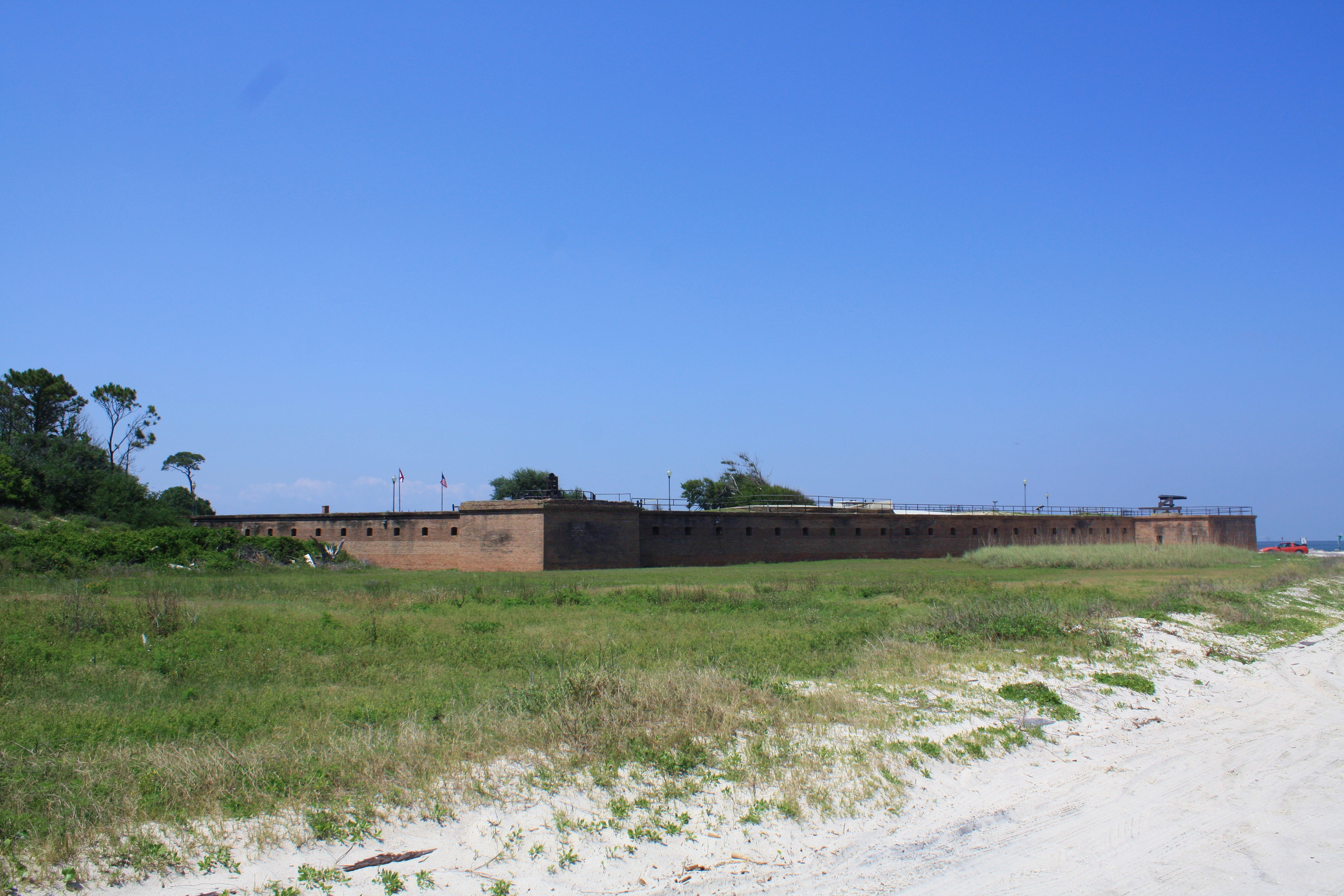 View of the seaward (south) side of Fort Gaines on Dauphin Island, Mobile County, Alabama, United States.